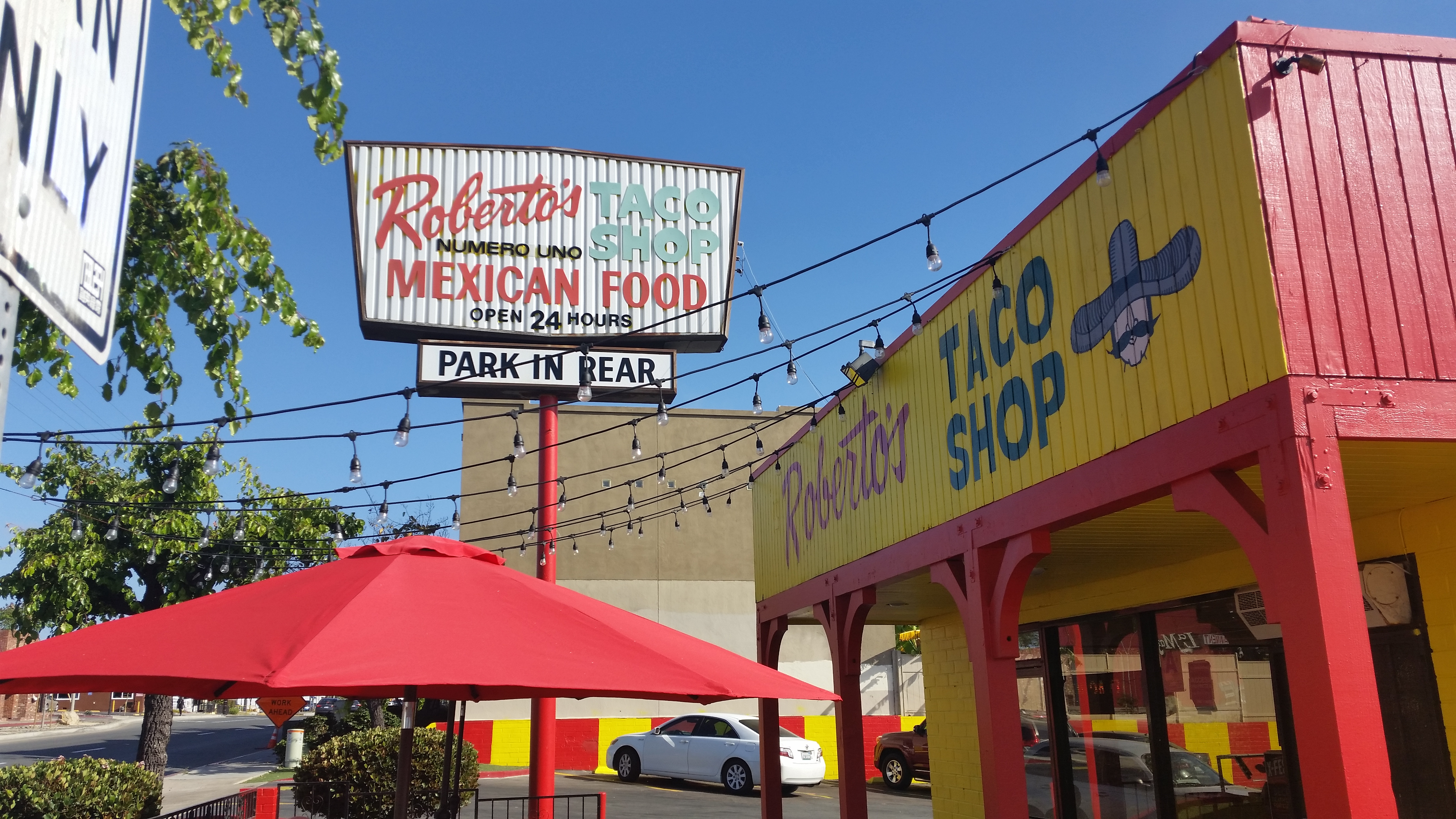 The first Roberto’s Taco Shop seen from the north, opened in 1964